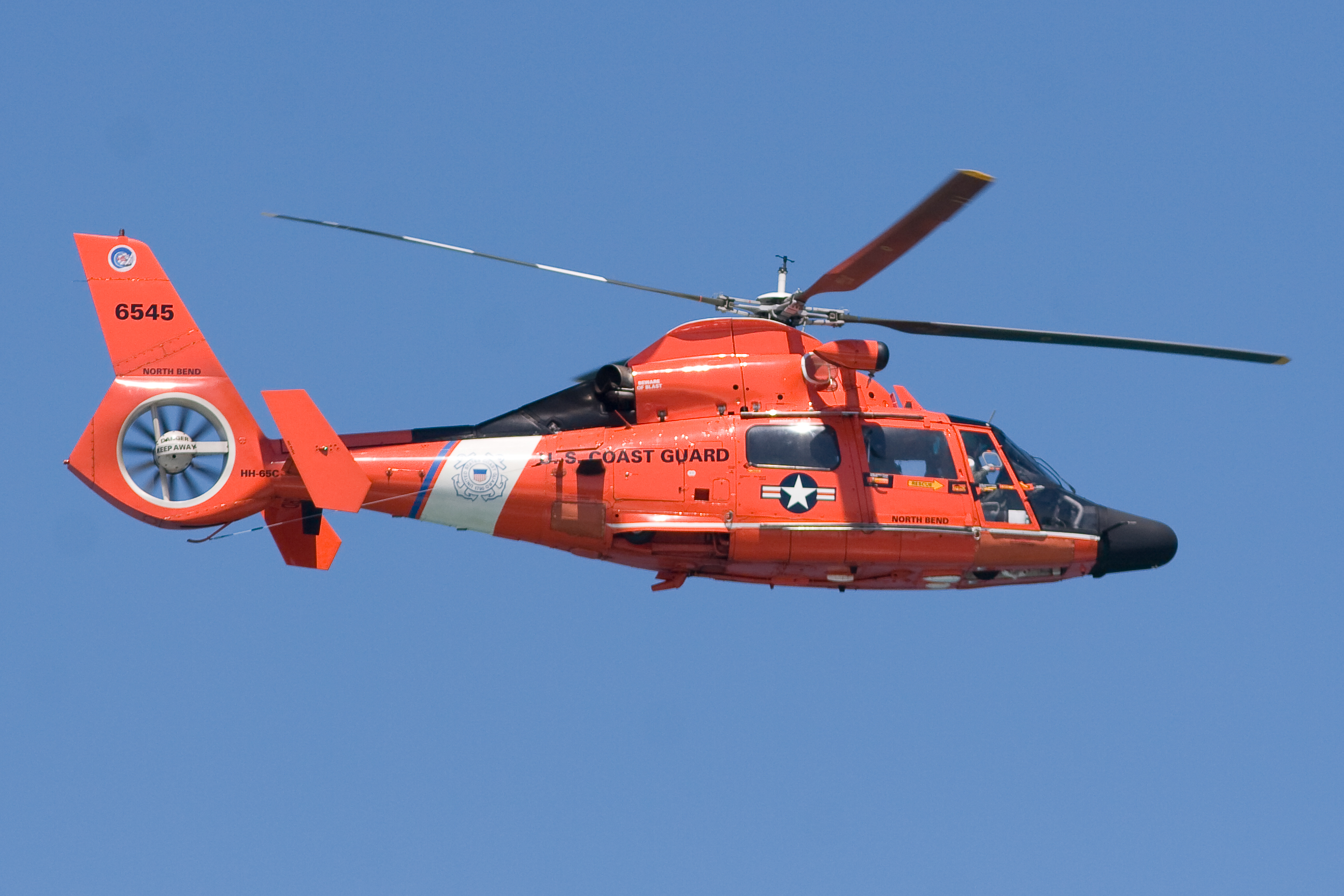 HH-65C Dolphin helicopter from Coast Guard Air Station North Bend, Oregon flying over Currituck Beach on the North Carolina Outer Banks